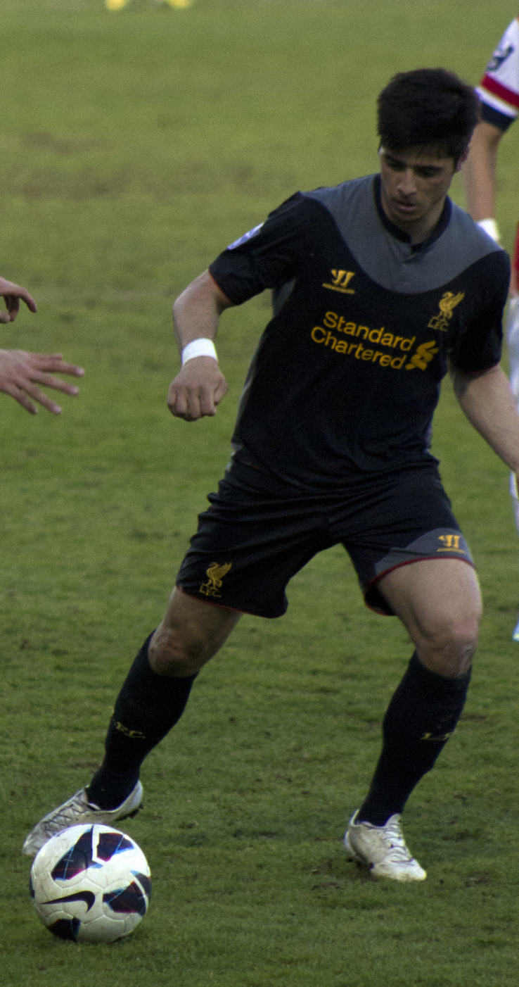 João Carlos Teixeira, Portuguese football player of Liverpool FC (here at U-21 level).